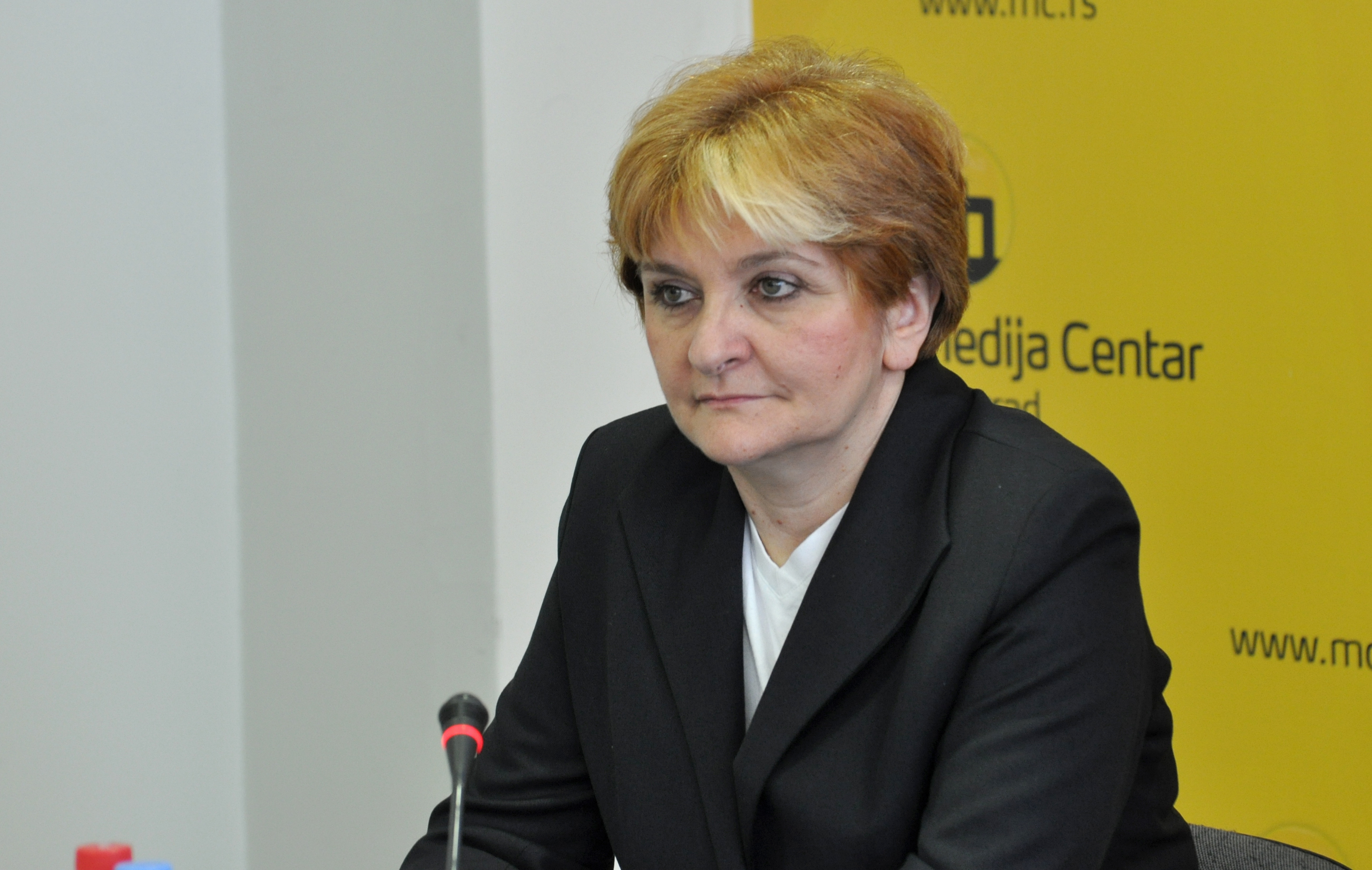 Danica Grujičić